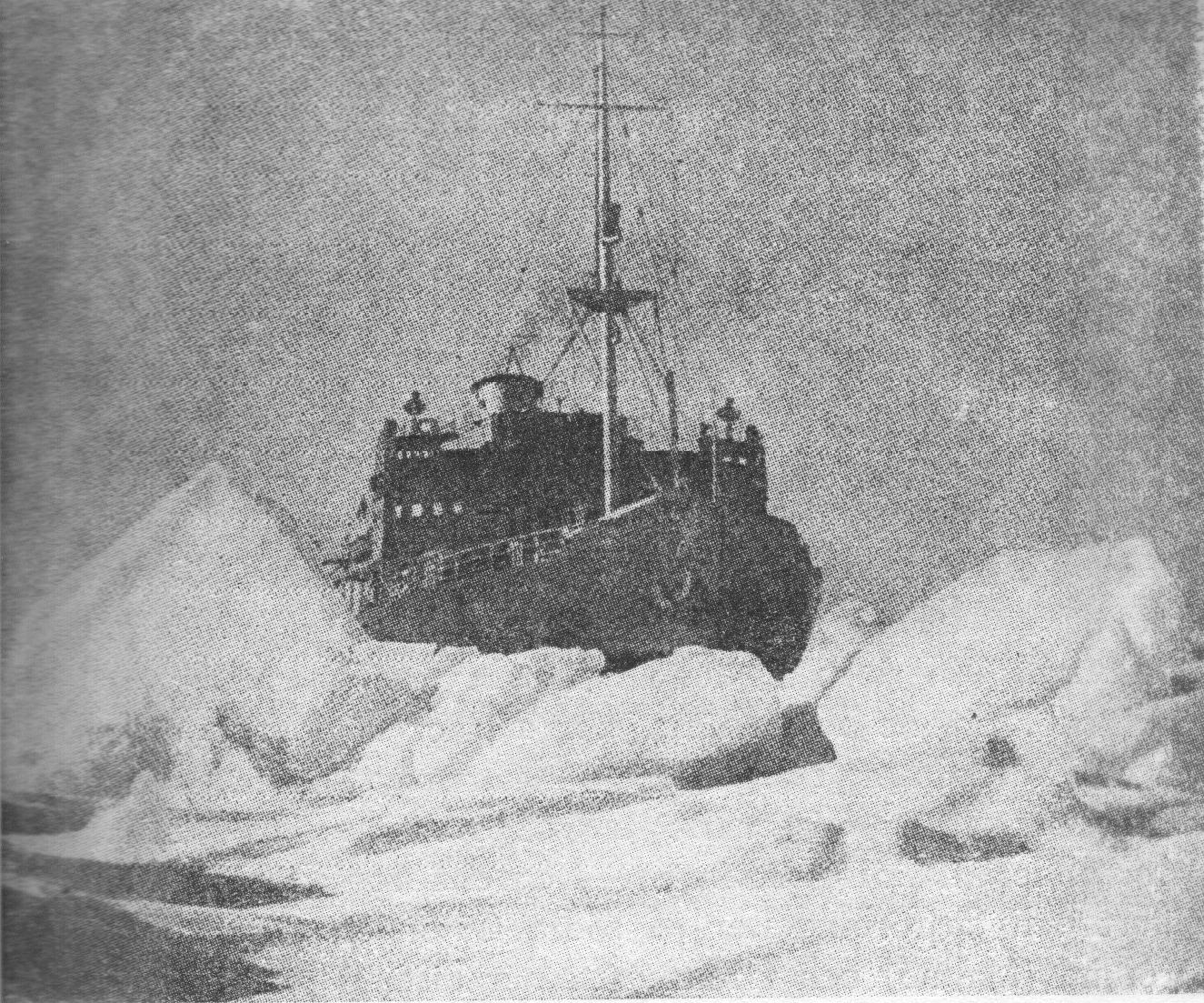 Swedish icebreaker HMS Ymer from 1933